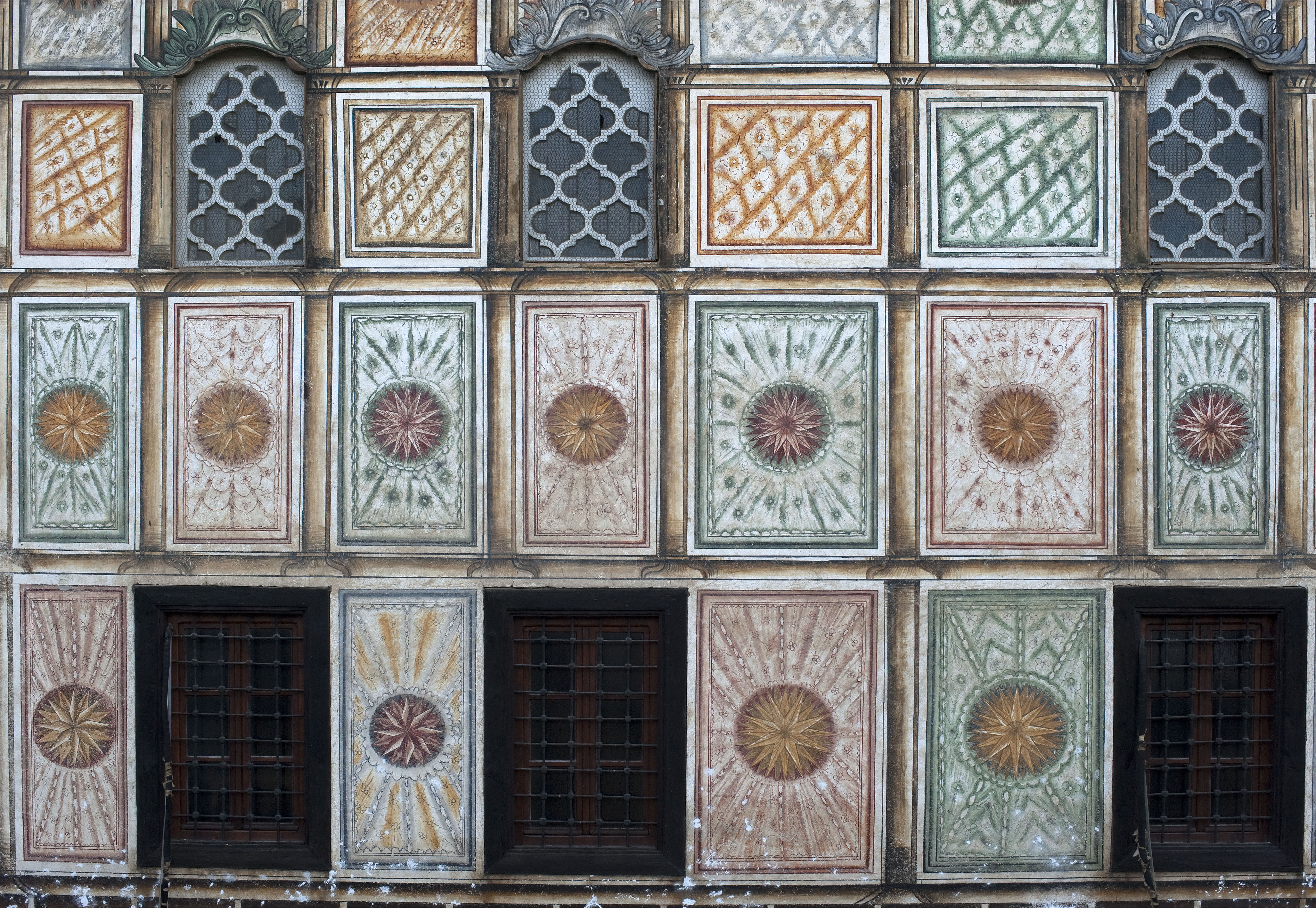 Details of Colored or Painted Mosque (Aladzha or Sharena Dzamija), Tetovo, Republic of Macedonia.